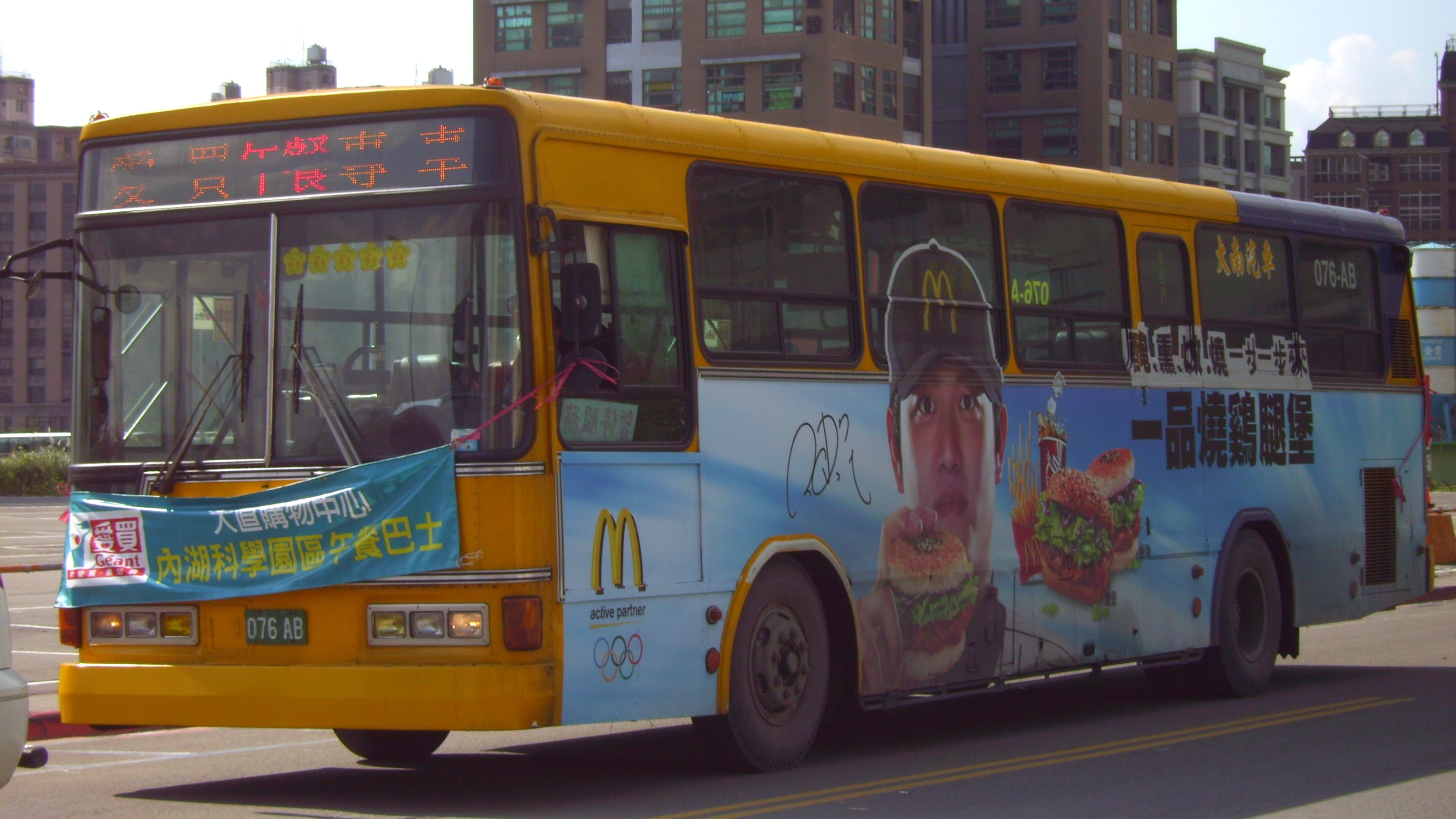 Far East Geant Department Store Dazhi Branch - Neihu Technology Park Friday Lunch Shuttle Bus, operated by Danan Bus Co., Ltd., but this service has been suspended from January 26, 2007. 中文（台灣）: 大南汽車曾一度在每周五固定營運愛買購物中心大直店的「內湖科學園區午餐巴士」，但此項服務已於2007年1月26日不再提供。